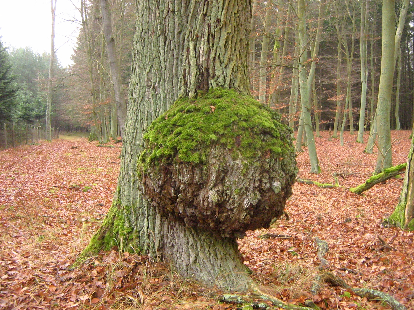 Sessile oak with a large burl in the Brohmer Bergen hills of northern Germany.